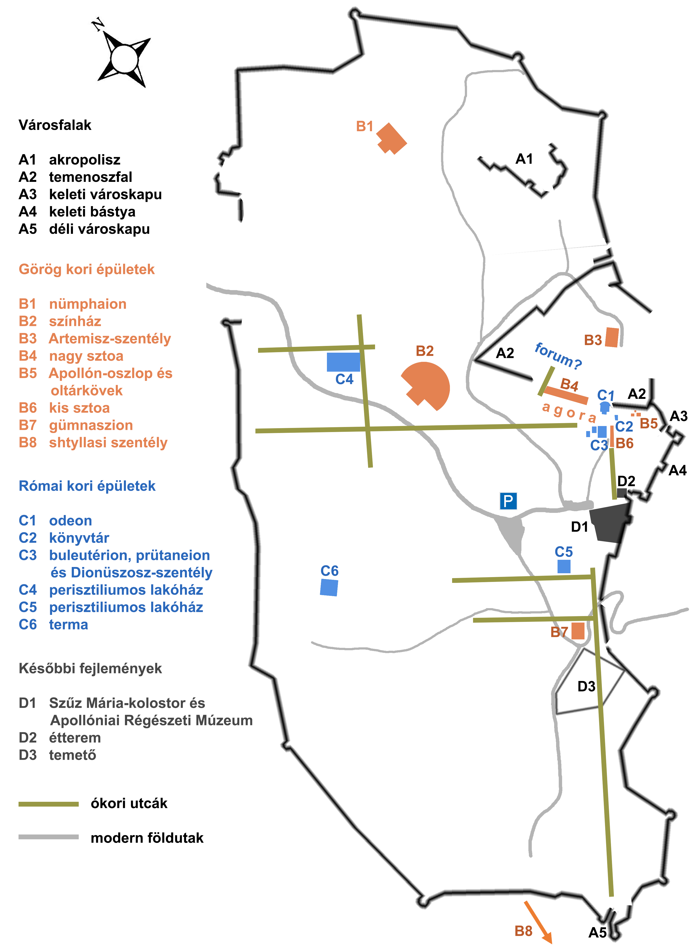 Simplified map of Apollonia, Albania with Hungarian labels Drawn based on maps published in Oliver Gilkes: Albania. An Archaeological Guide (New York, I.B. Tauris, 2013), pages 42 and 44, verified against satellite view of Google Maps Legend: Fortifications: A1 - acropolis, A2 - temenos wall, A3 - eastern gate, A4 - eastern bastion, A5 - southern gate Greek Age: B1 - nymphaeum, B2 - theather, B3 - Artemis sanctuary, B4 - great stoa, B5 - Apollon column and altar stones, B6 - small stoa, B7 - gymnasium, B8 - sanctuary in Shtyllas Roman Age: C1 - odeon, C2 - library, C3 - bouleterion, prytaneion and Dionysos sanctuary, C4 & C5 - peristyle house, C6 - bath =therma) Modern additions: D1 - St Mary Manastery and Archaeological Museum of Apollonia, D2 - restaurant, D3 - cemetery The brownish lines indicate the antiques streets, whereas pale grey lines depict the current unpaved roads